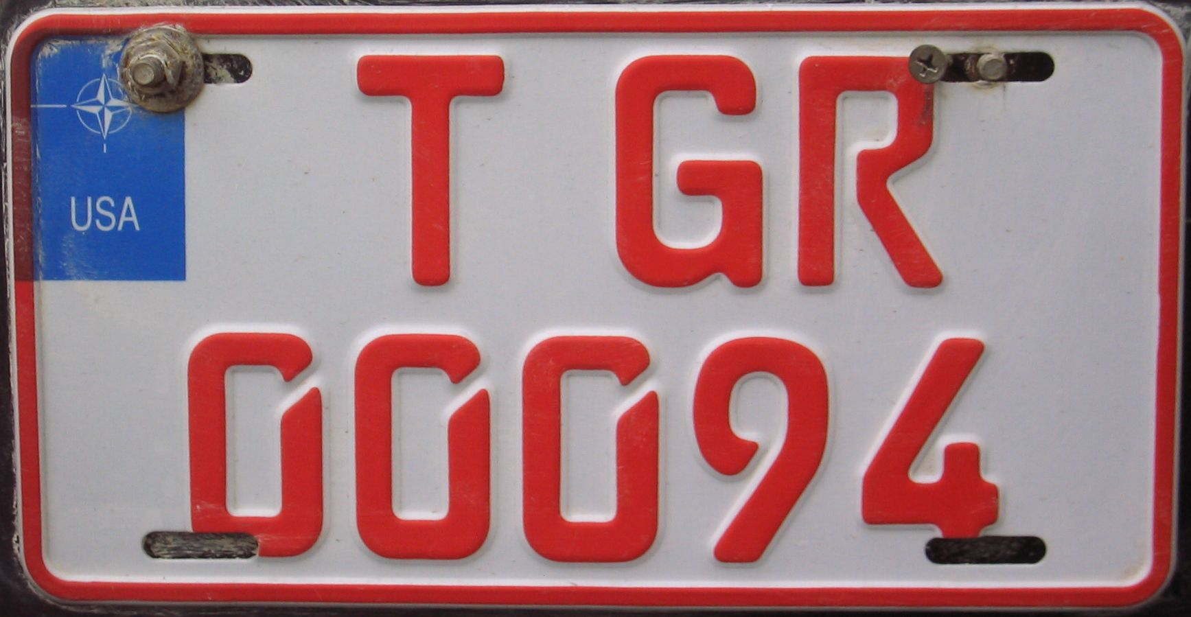 Vehicle registration plate of US Army Forces in Germany, Grafenwöhr. Red plate used for temporary registration.